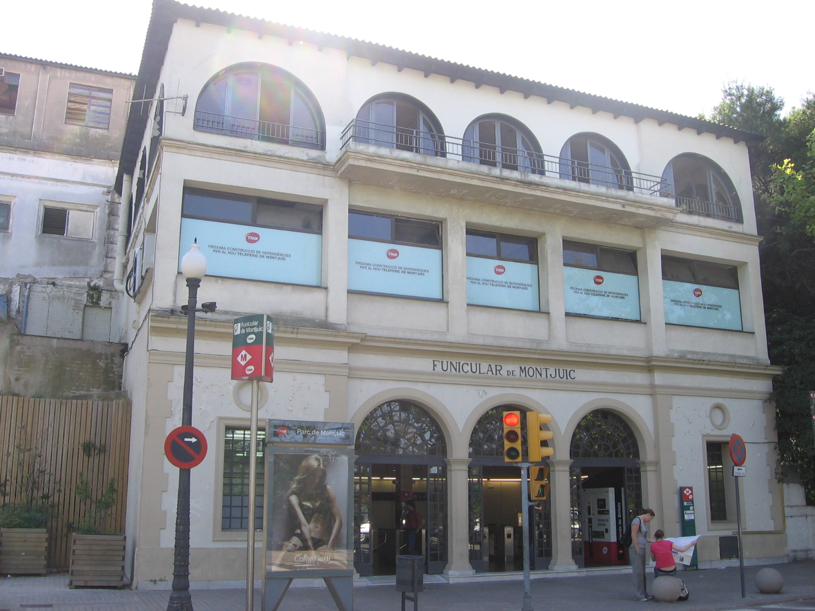 Exterior of the Parc de Montjuïc station on the Funicular de Montjuïc, Barcelona.